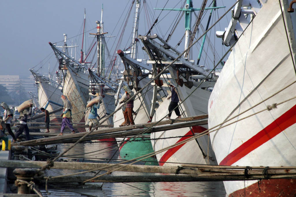 Pinisi ships dock at the Sunda Kelapa Harbor, Jakarta.